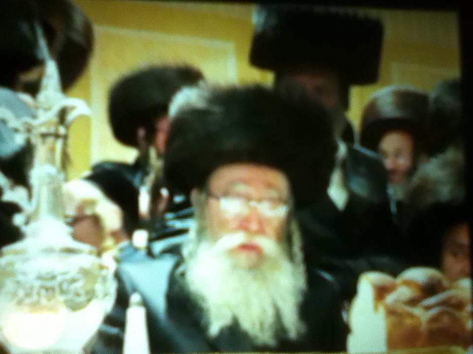 The Rebbe at a recent wedding